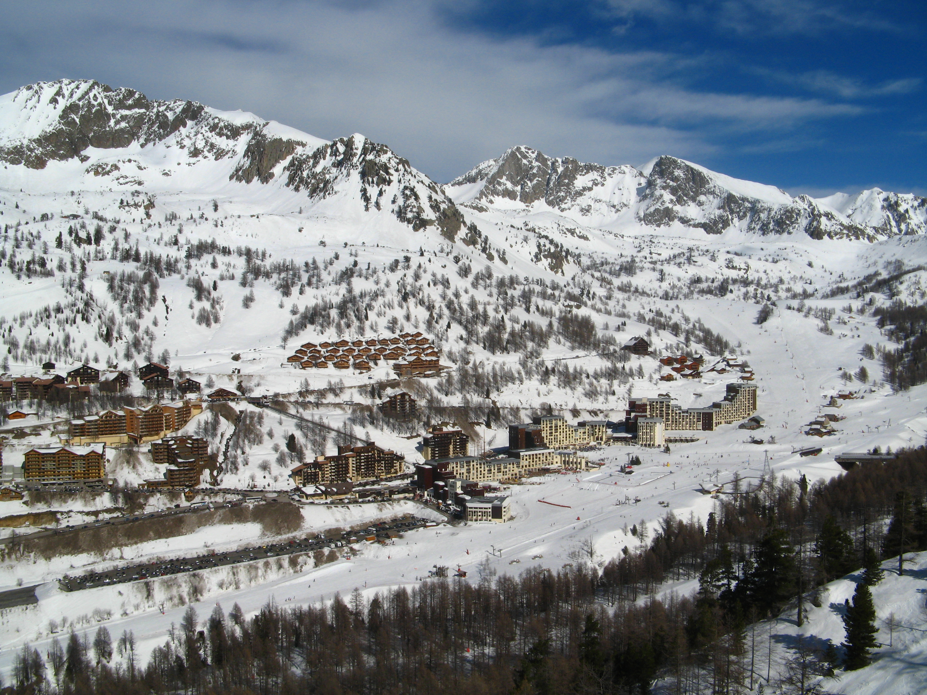 Isola 2000 ski resort (Alpes-Maritimes, France)